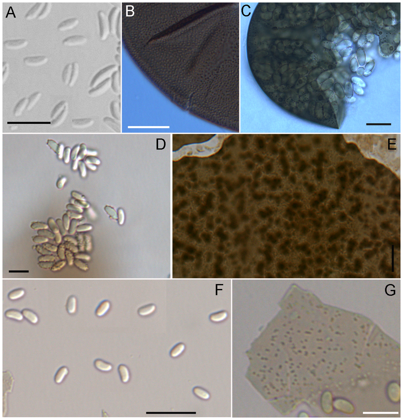 Figure 2. Light microphotographs of Ascosphaera tenax, A. atra, A. major, and A. apis. Ascosphaera tenax A) ascospores. B) punctate spore cyst wall.; A. atra C) broken spore cyst with ascospores.; A. major D) ascospores with attached granules. E) close-up of spore cyst wall.; A. apis F) ascospores. G) detail of pale spore cyst wall with minute spots. A–B photographed from holotype; C from ARSEF 693; D from A.A. Wynns 5170; E from A.A. Wynns 5175; F from A.A. Wynns 5174. Scale bars A = 5 µm, B–C = 10 µm, D = 5 µm, E–F = 10 µm.